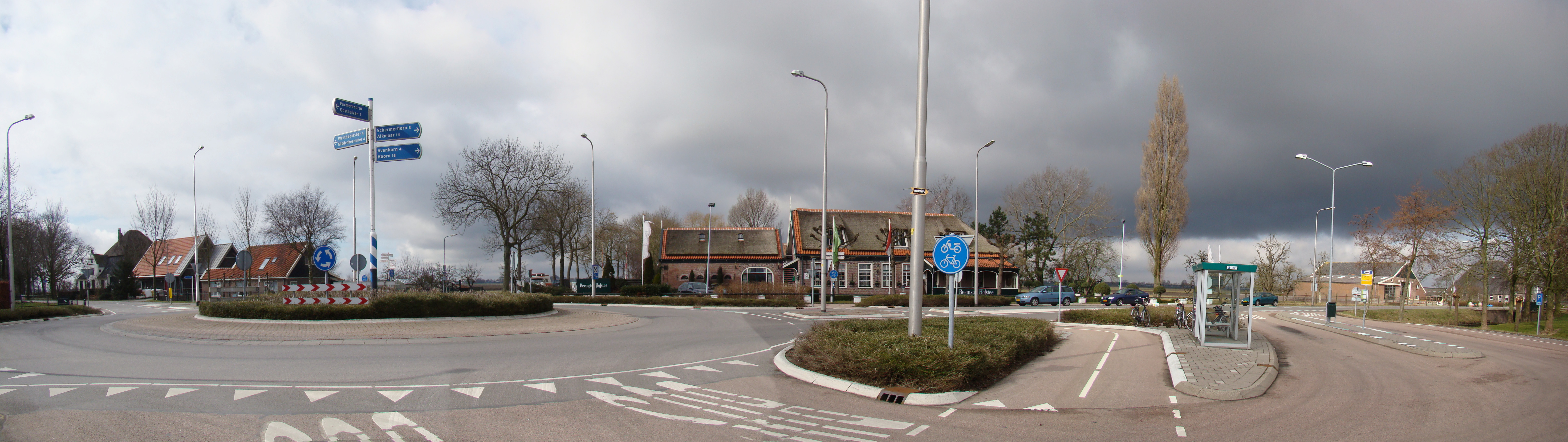 Middleroad, North Beemster, Netherlands